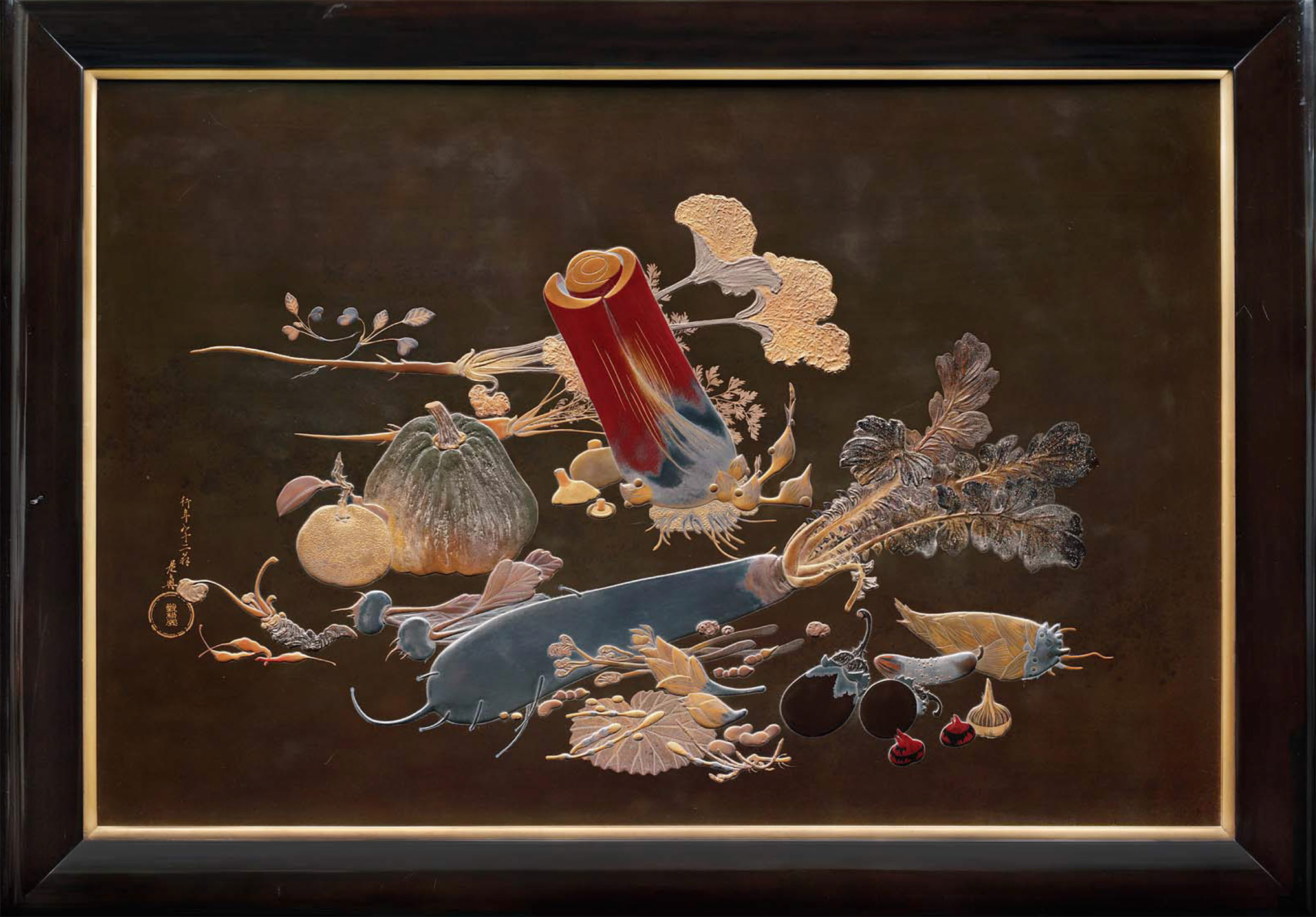 Plaque with decoration of the vegetable nehan. Shibata Zeshin (Japanese, 1807–1891). 1888. Lacquered wood. Framed: 75 x 106 x 4 cm. Unframed: 63 x 93.5 cm. MFA Boston. Screenshot from